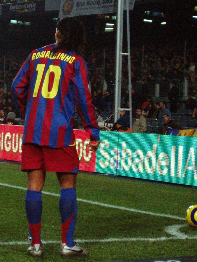 Ronaldinho